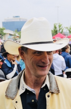 Starting off my Stampede weekend by flipping pancakes with a big crowd at the Chinook Centre Breakfast. Thanks to our Conservative Candidate Greg McLean for joining me! Together Conservatives will help all Canadians get ahead.